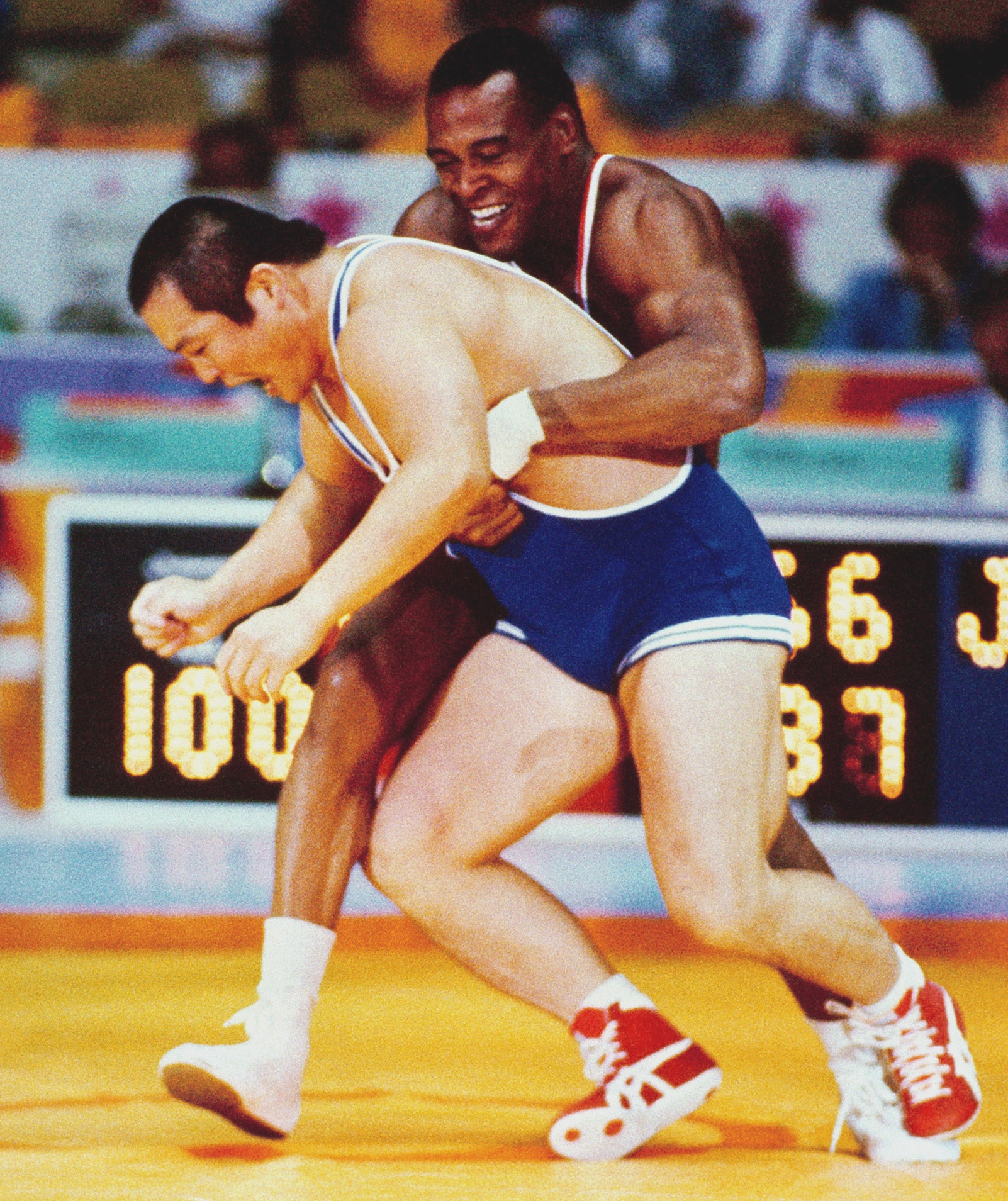 Marine Corps Sergeant Greg Gibson wrestles Yoshihiro Fujita of Japan in the Greco-Roman wrestling competition at the 1984 Summer Olympics.